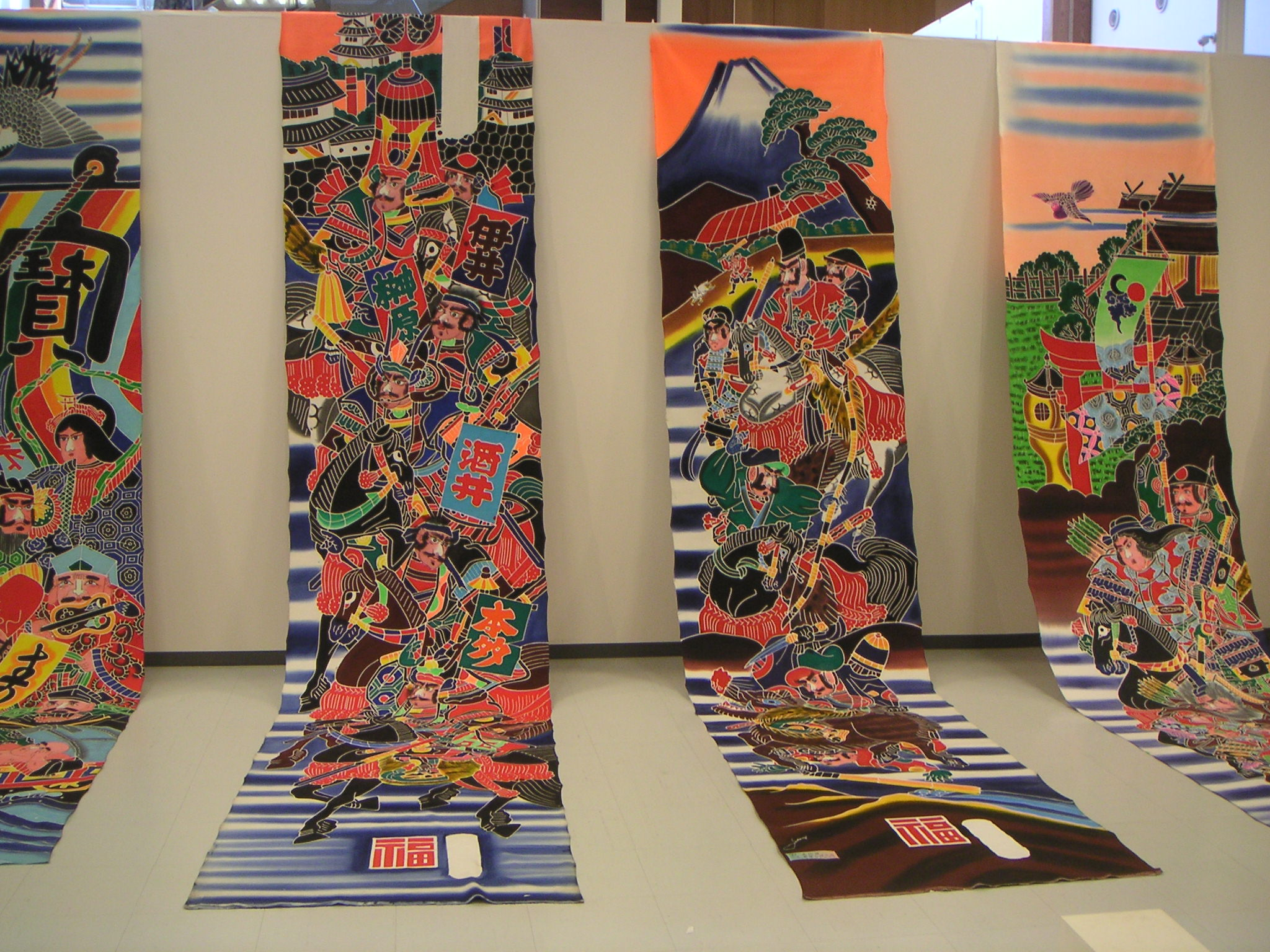 筒描き手染め武者絵のぼり Japanese TSUTSUGAKI Worriors Nobori